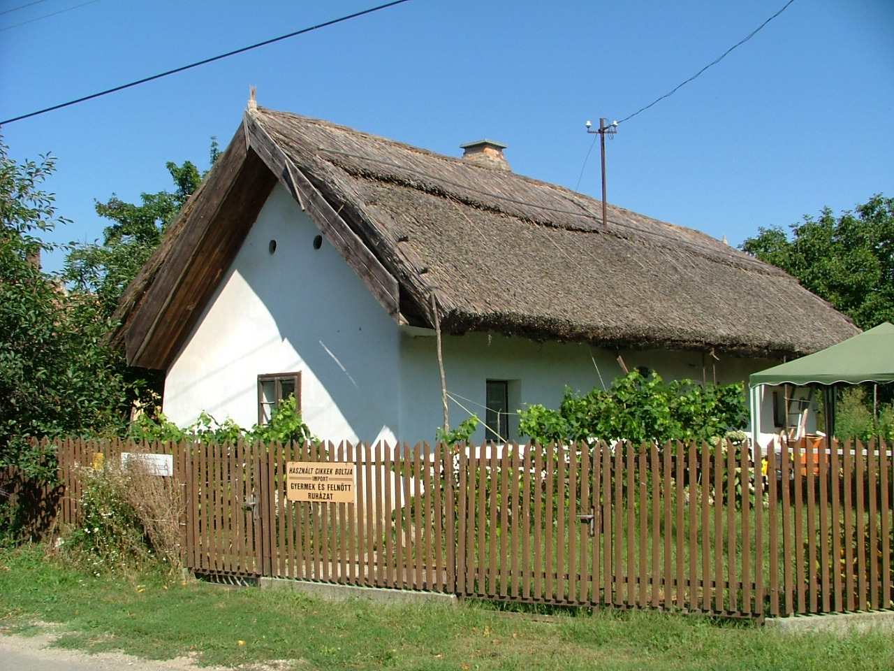 Renewed house of a peasant in Kisbabot